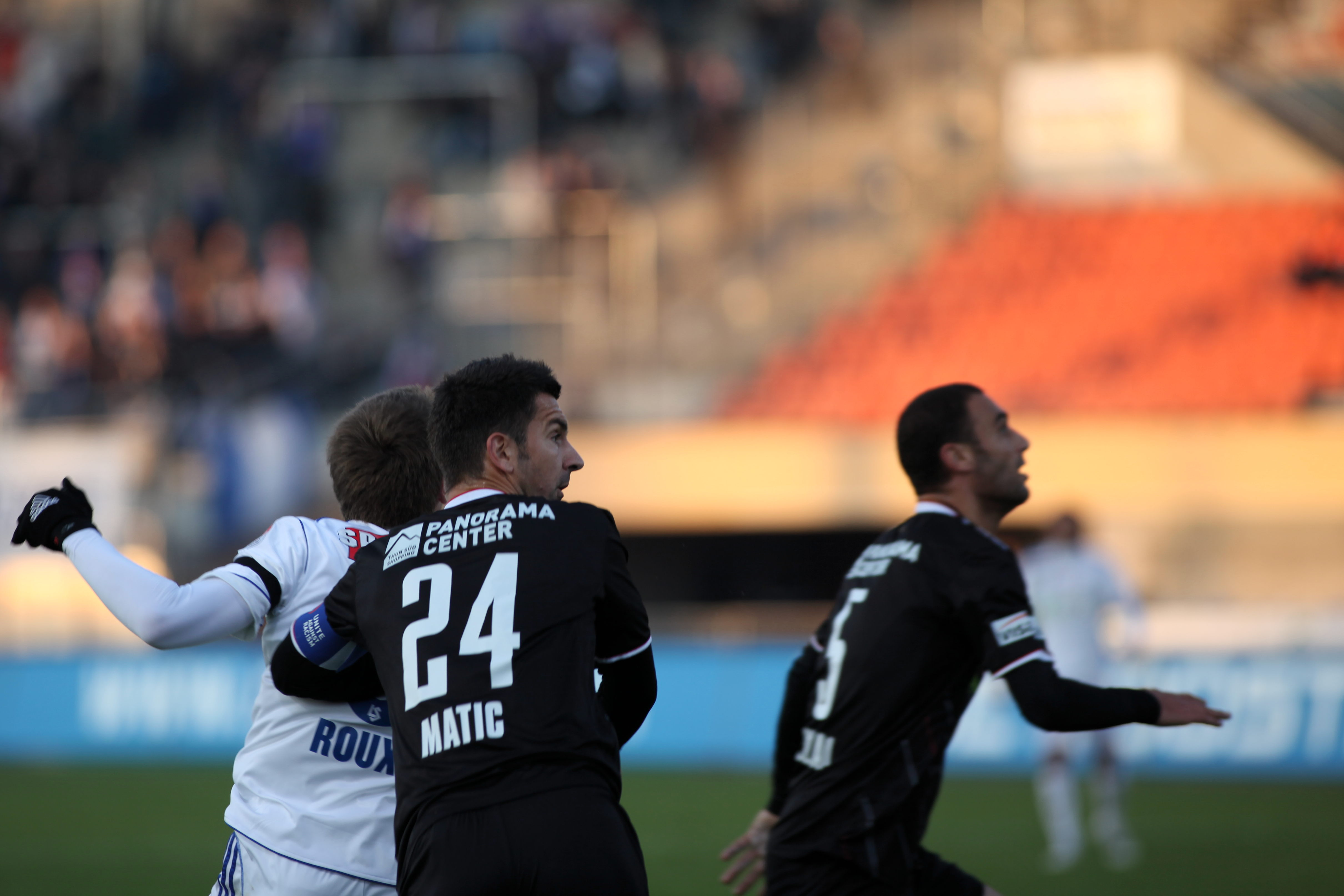 FC Thun vs FC Lausanne on 23 of October 2011 The making of this document was supported by Wikimedia CH. (Submit your project!) For all the files concerned, please see the category Supported by Wikimedia CH.